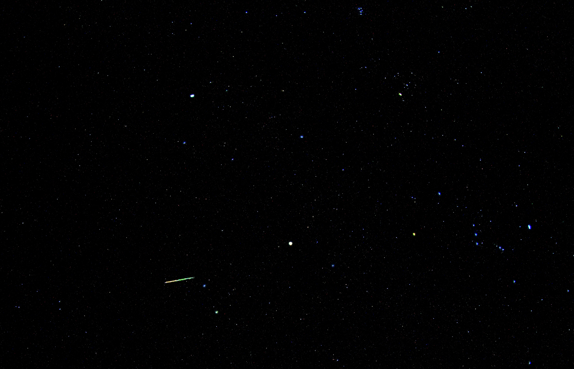 A starry sky above Death Valley National Park with Orionid meteor